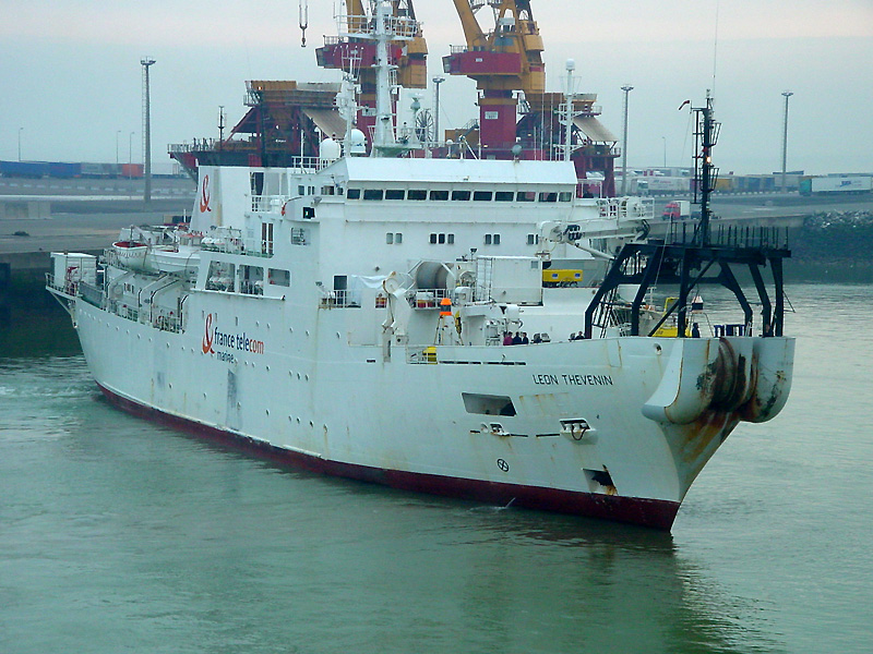 The french cableship "Léon Thevenin" in Calais port.